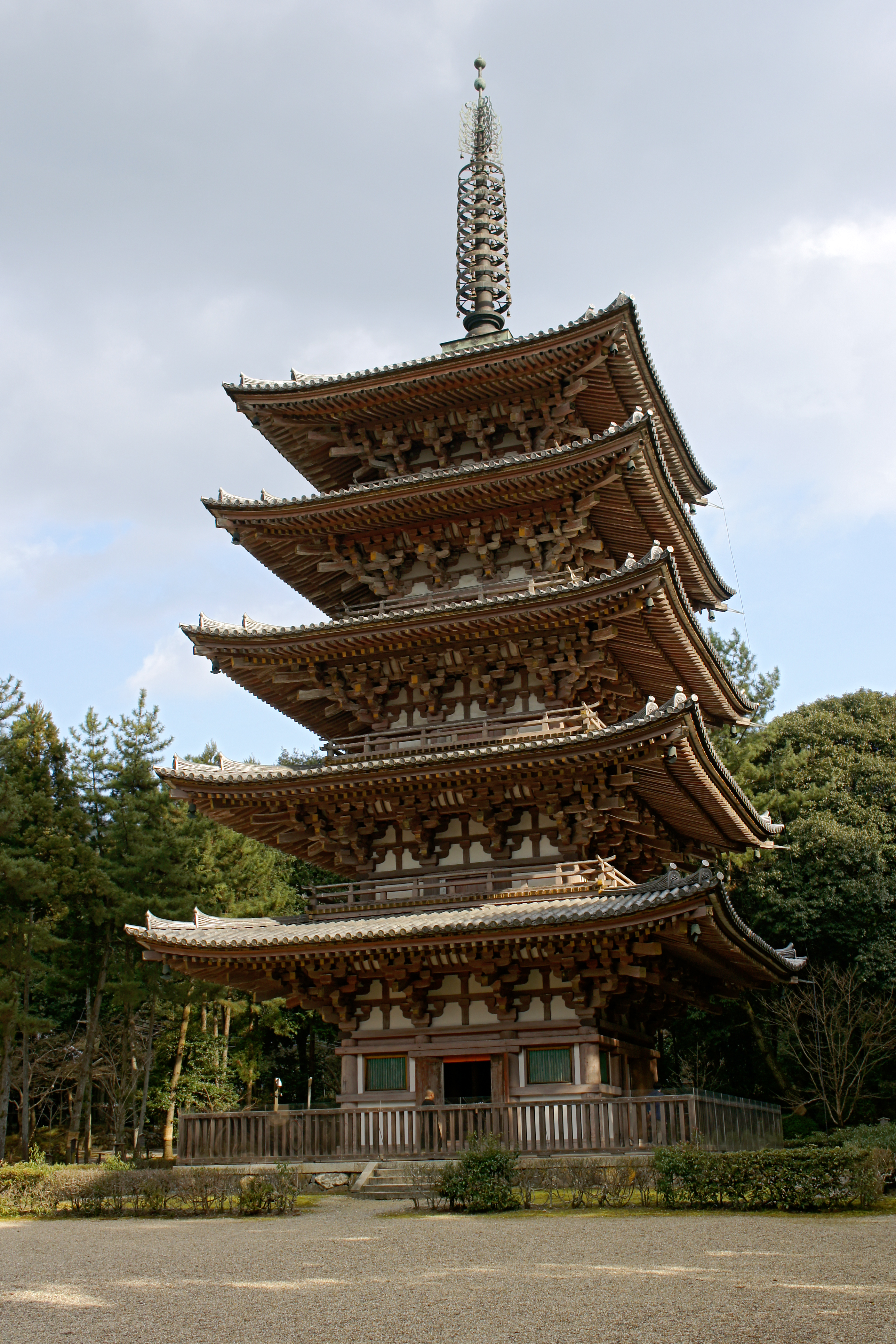 Daigo-ji's Pagoda is Japan's National Treasure in Fushimi-ku, Kyoto, Kyoto Prefecture, Japan. It was built in 951. Daigo-ji was registered as part of the UNESCO World Heritage Site "Historic monuments of ancient Kyoto".